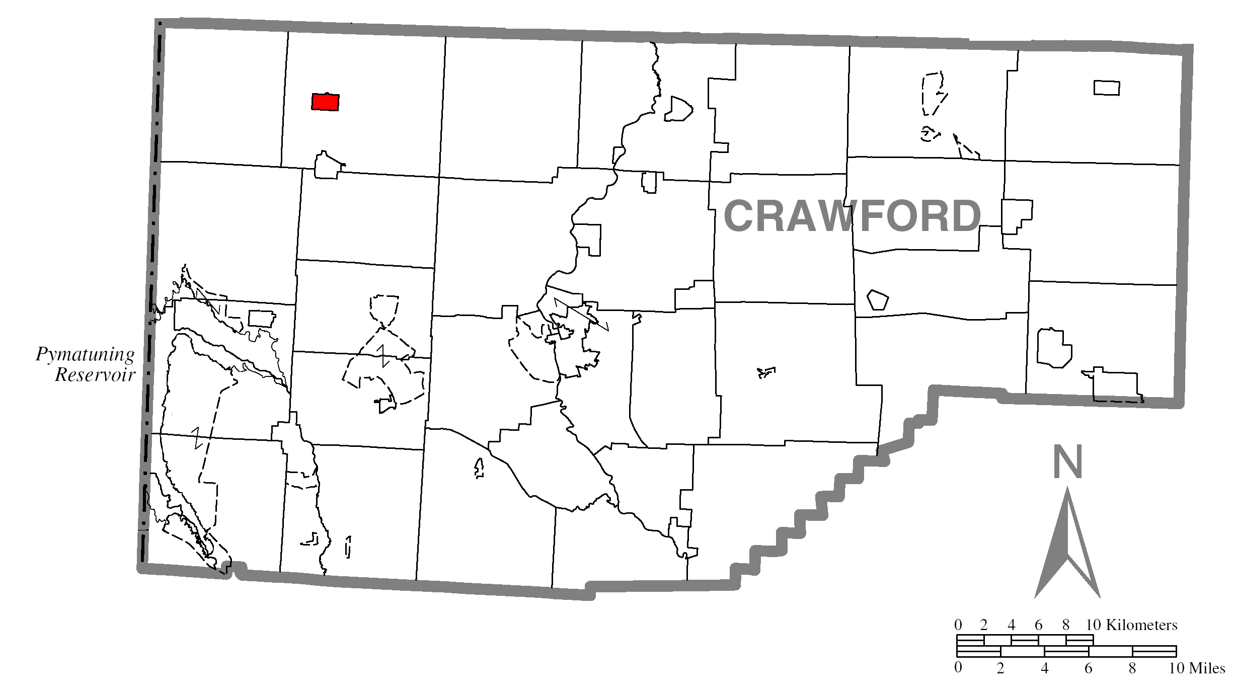 Map of Crawford County higlighting Springboro.